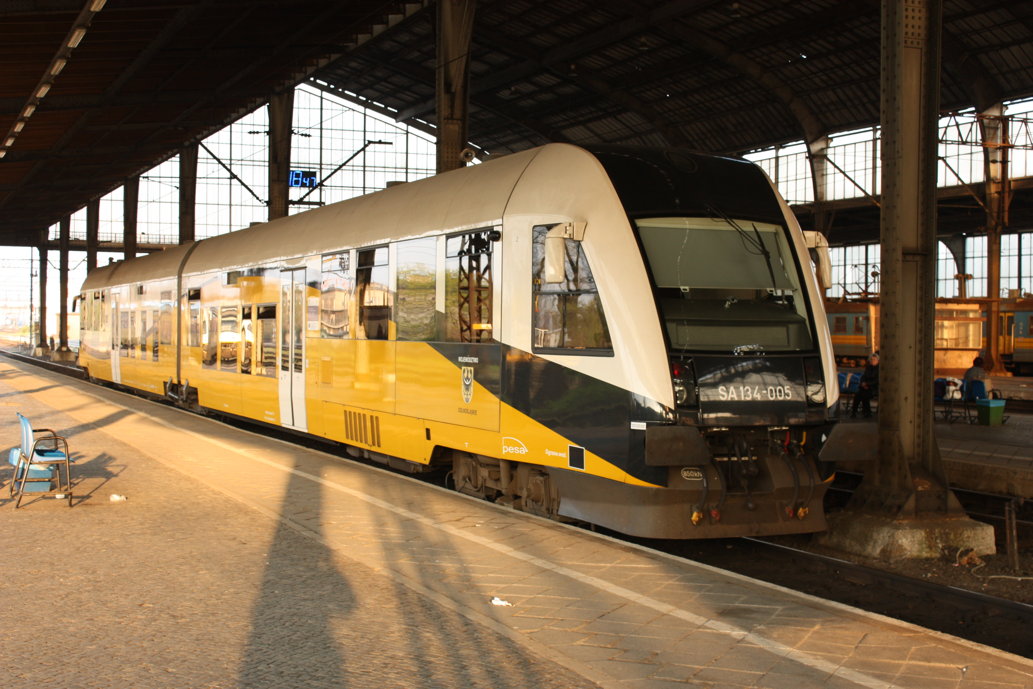 Railbus SA134-005 (produced by Pojazdy Szynowe PESA Bydgoszcz SA) in Brzeg railway station Legnica